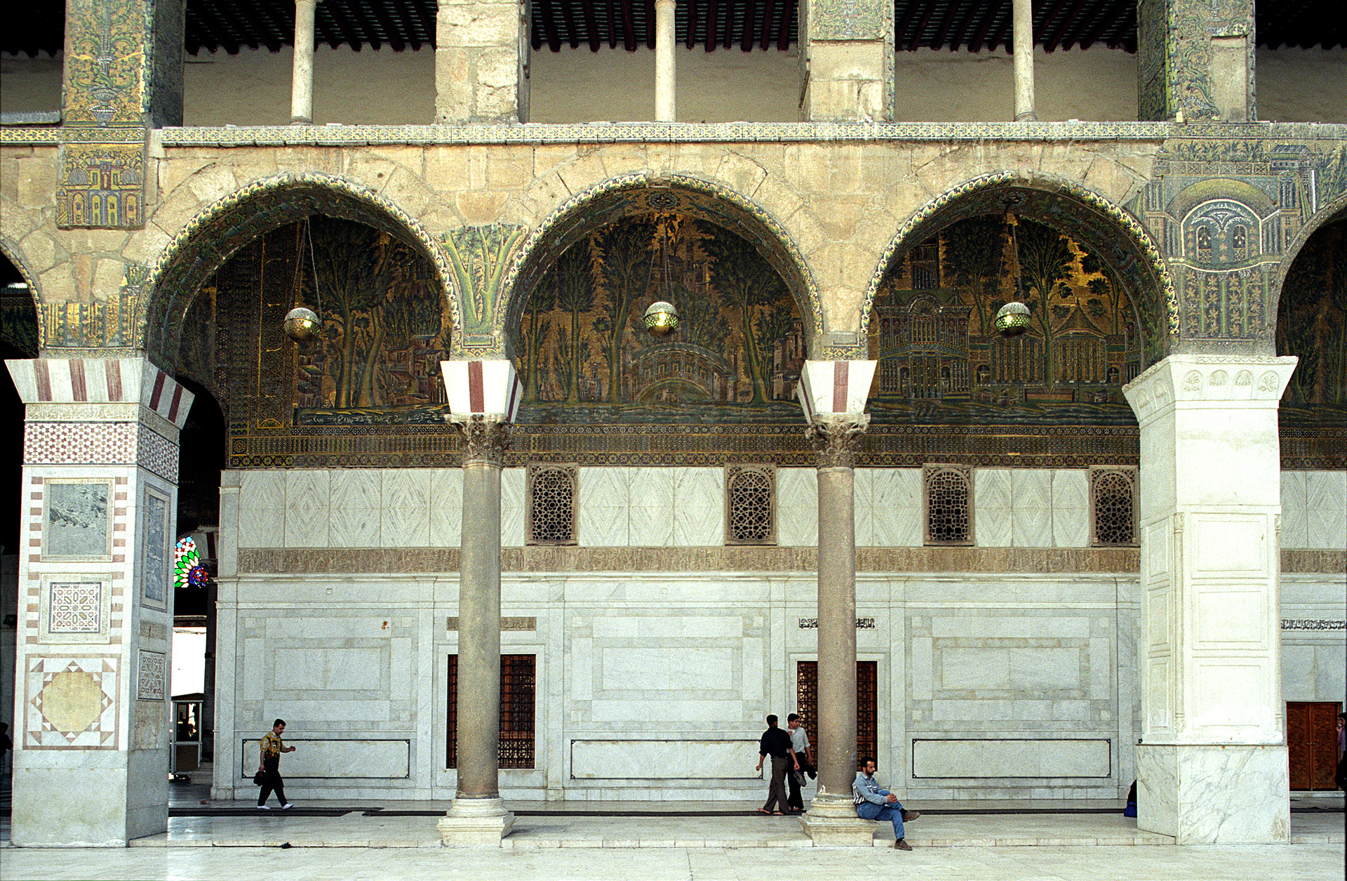 The Umayyad Mosque - the courtyard with mosaics, Damascus